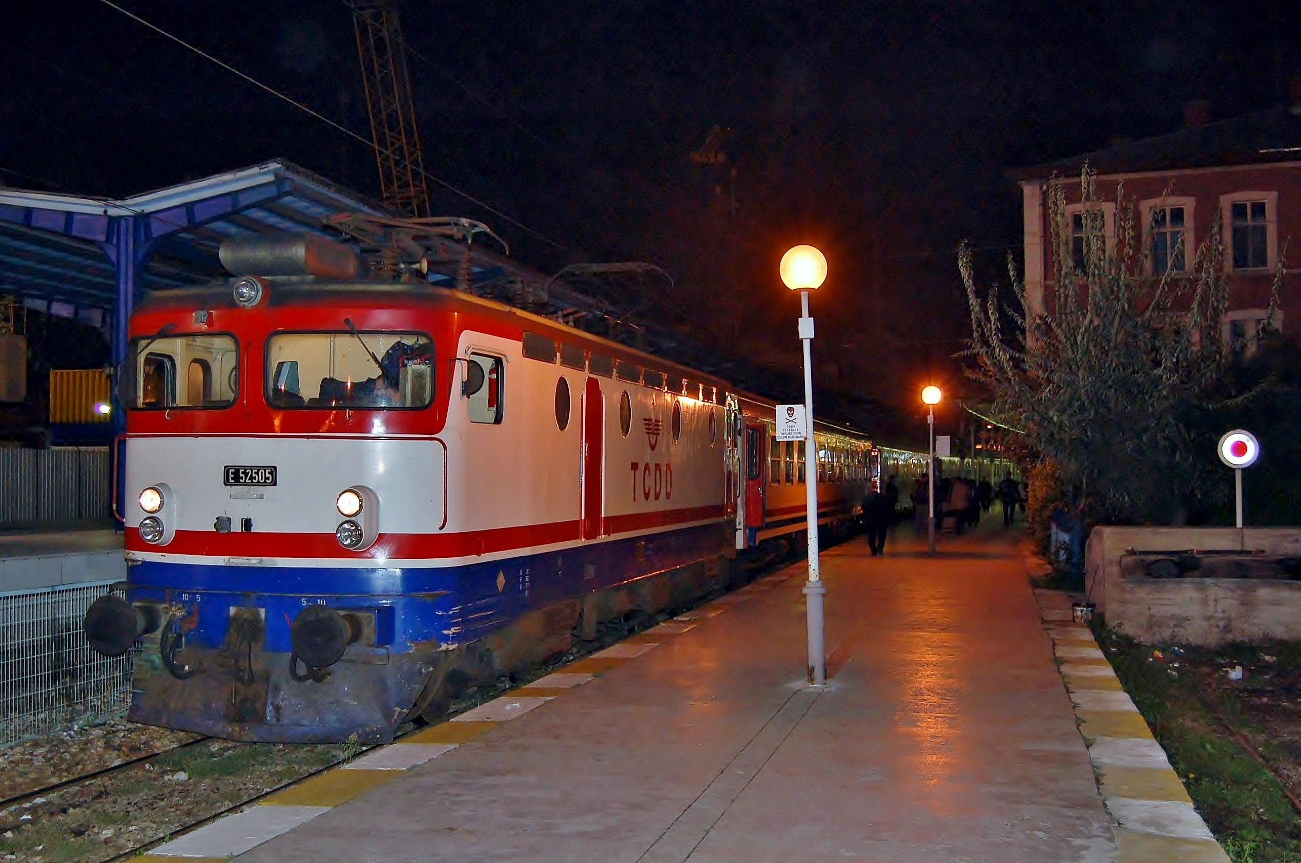 TCDD E 52500 locomotive no. E 52505 awaits departure from İstanbul Sirkeci Terminal with a combined Balkan Express and Bosphorus Express.